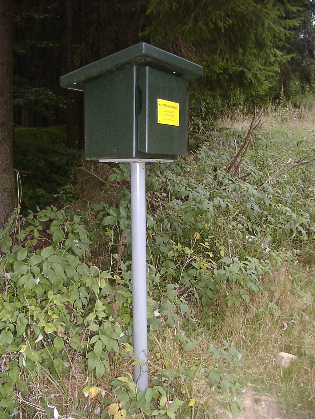 "Lasfelder Traenke" checkpoint on the Harz Wandernadel hiking network, Germany